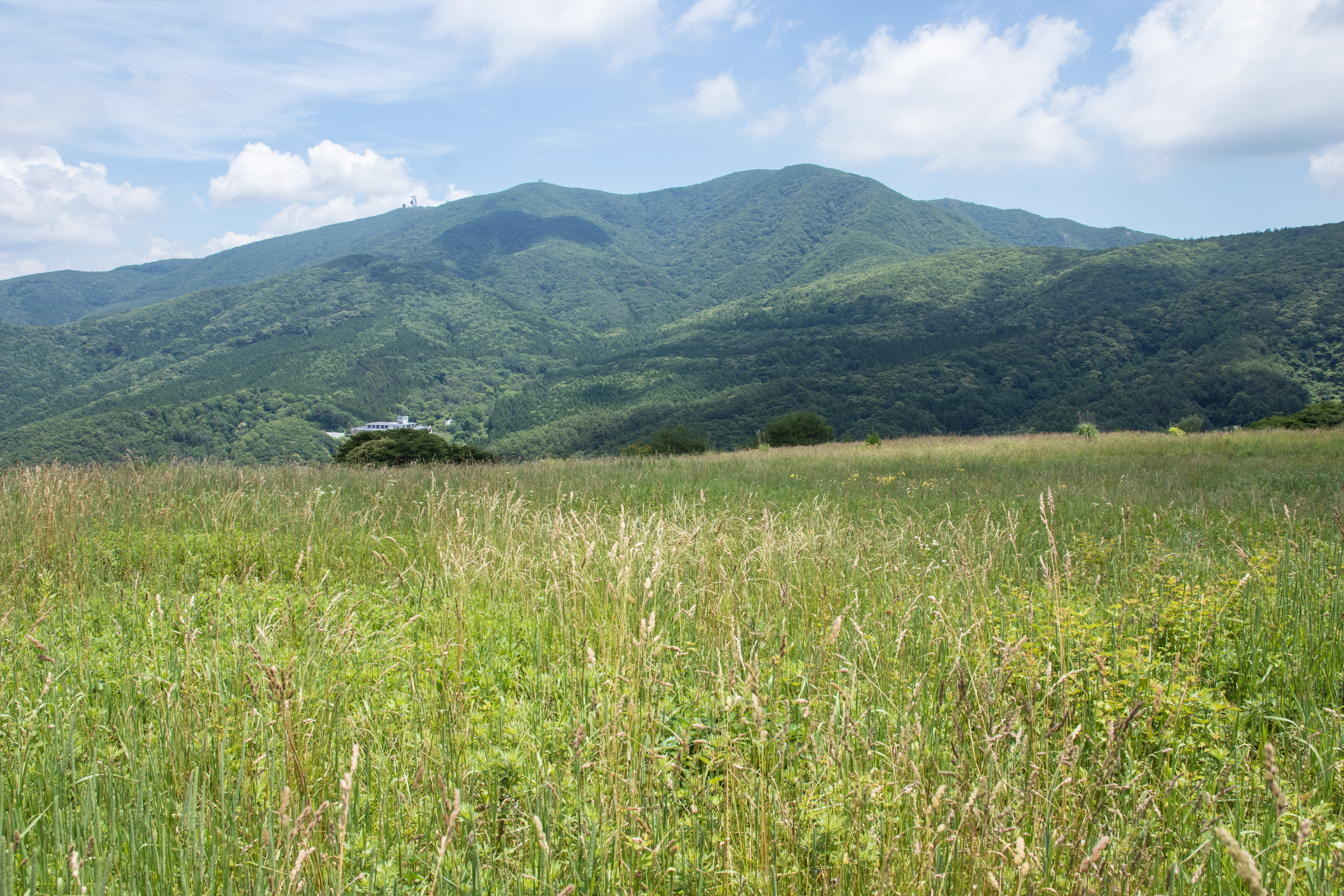 Mount Otakine, Abukuma Mountains, Fukushima Pref., Japan